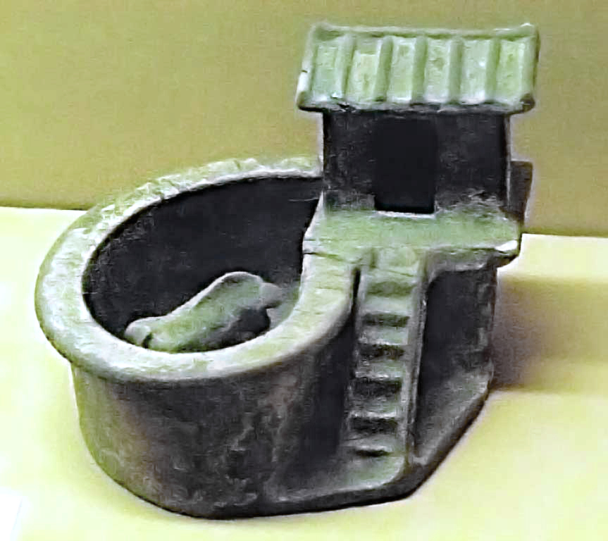 This pottery model toilet with pig is in the Shaanxi History Museum, Xi'an, China